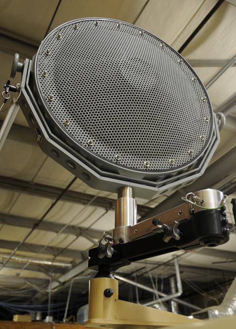 HyperSpike HS-24 Acoustic Hailing Device on a HMMWV